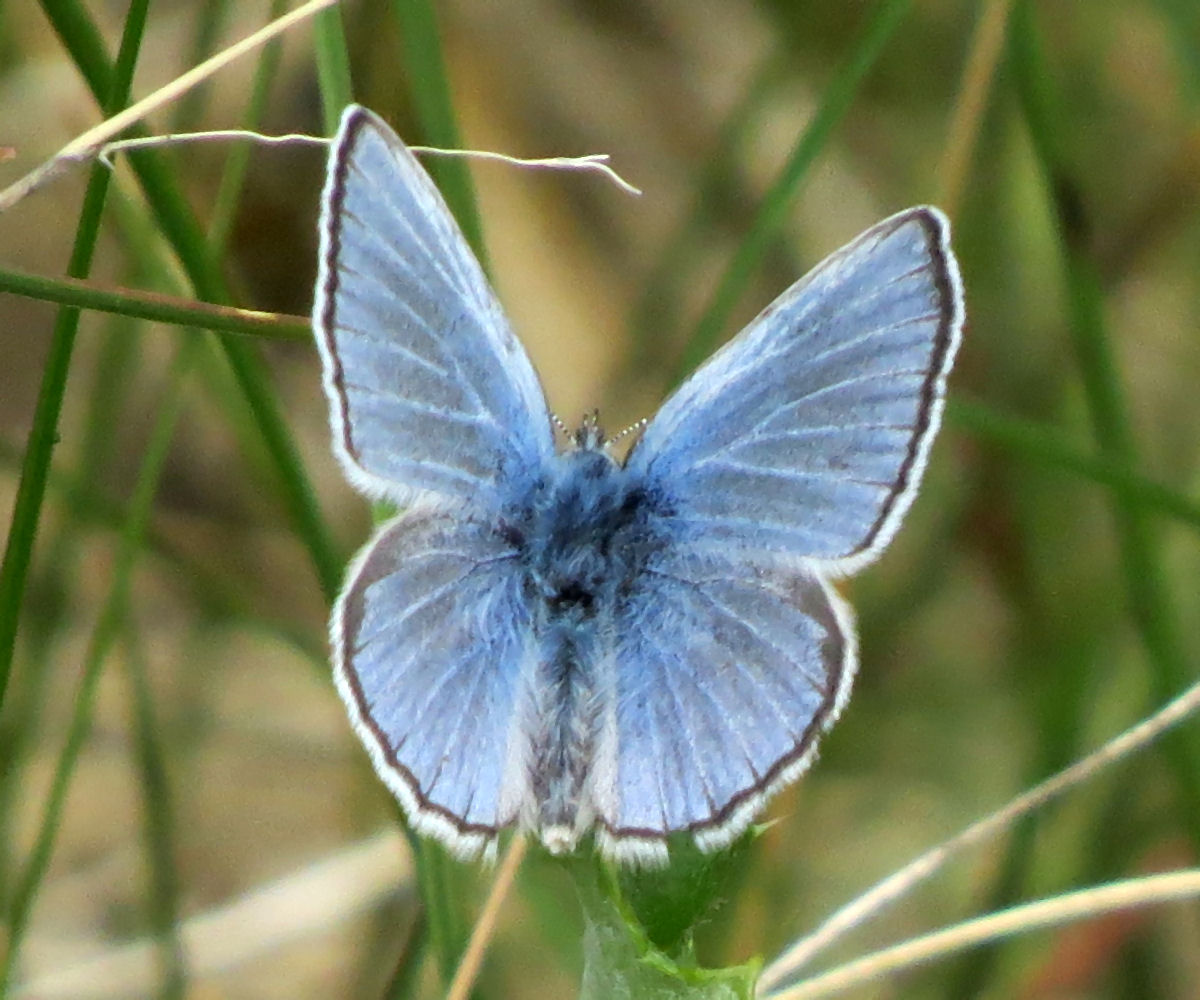 Silvery Blue (Glaucopsyche lygdamus), Nose Hill, Calgary, Alberta, Canada